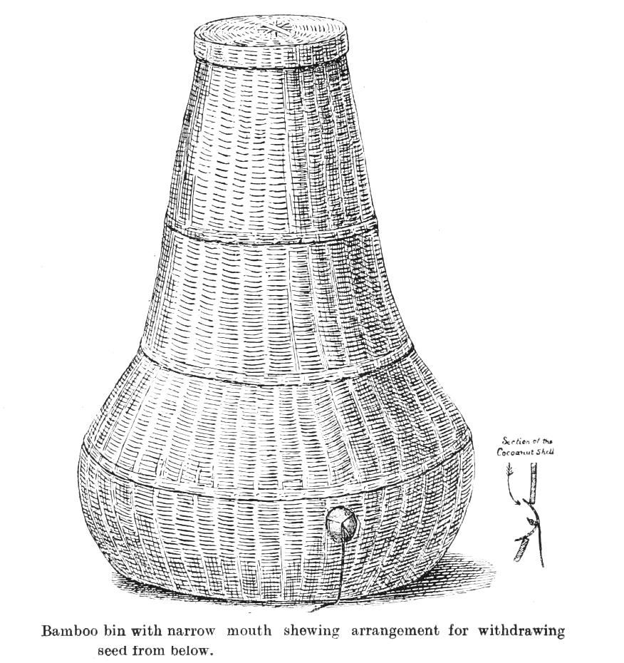 Traditional pulse storage system in Mysore